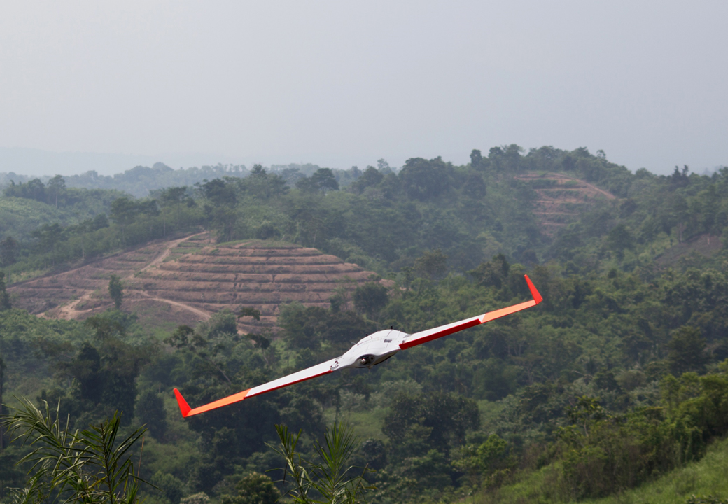 UAV acquiring data